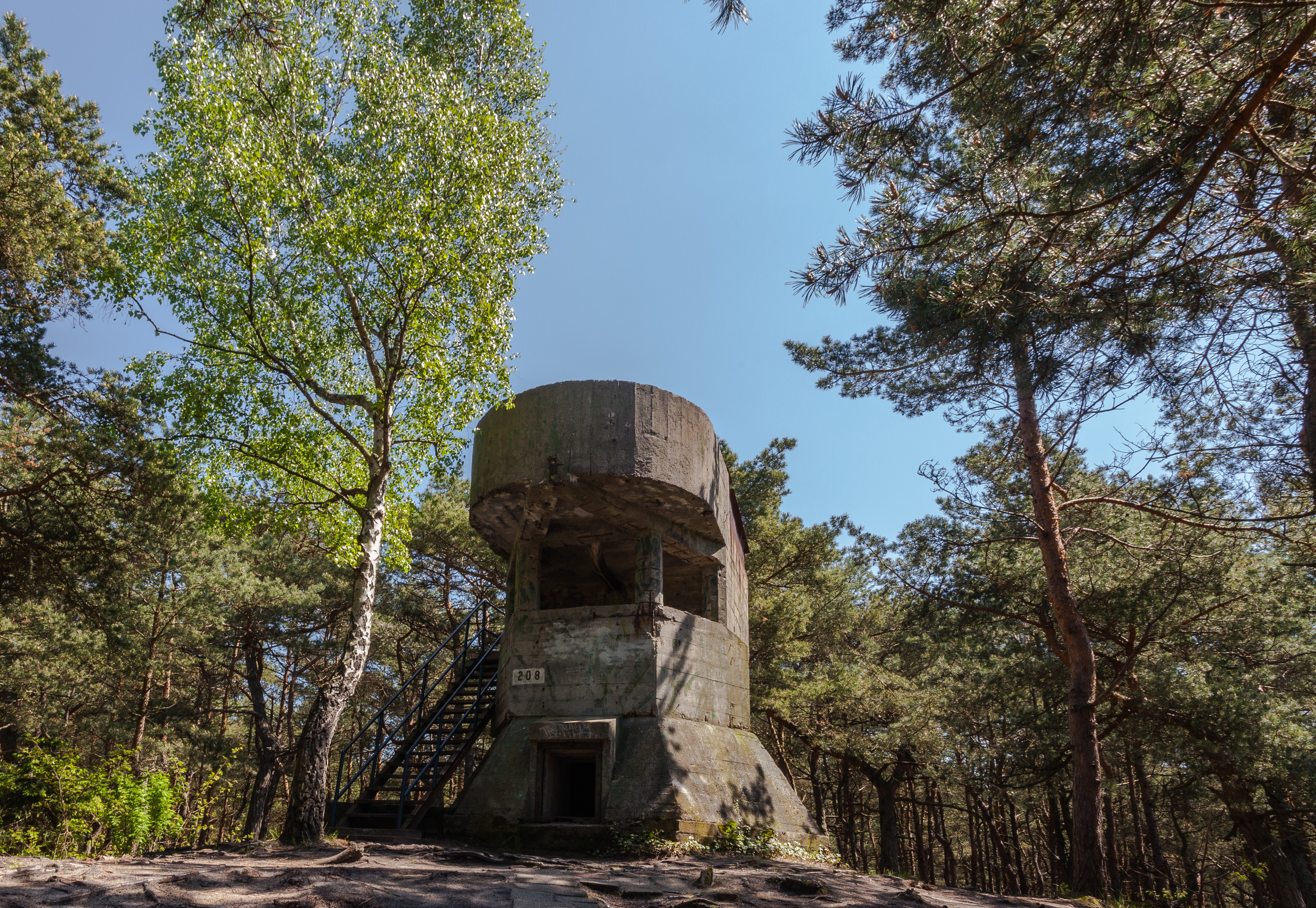 Fire control tower (rangefinder), Hel, Poland